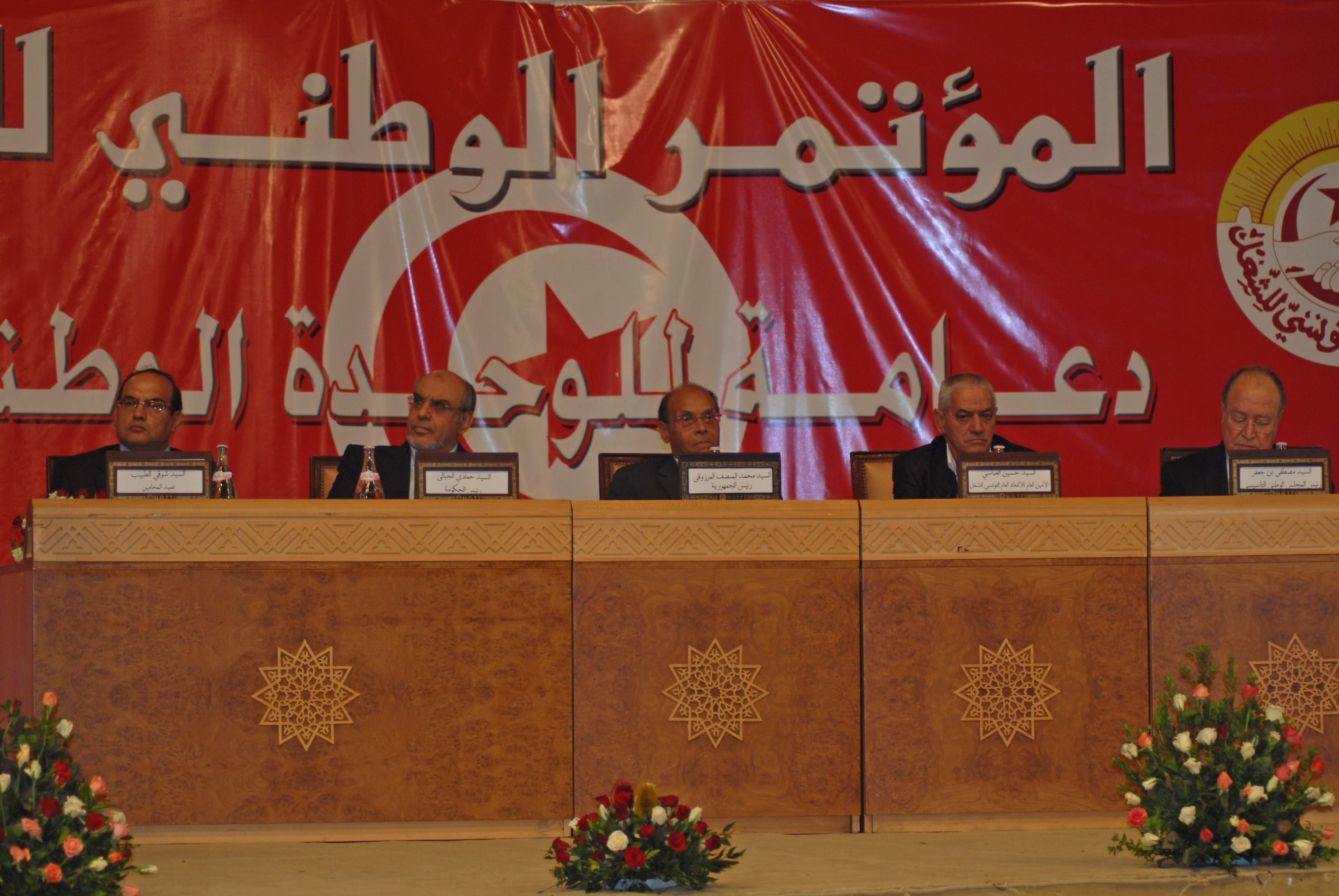 President Moncef Marzouki (centre) and Prime Minister Hamadi Jebali (second from left) attend the October 16, 2012, National Dialogue Congress.[1] from left to right ? Hamadi Jebali Moncef Marzouki Houcine Abassi Mustafa Ben Jaafar